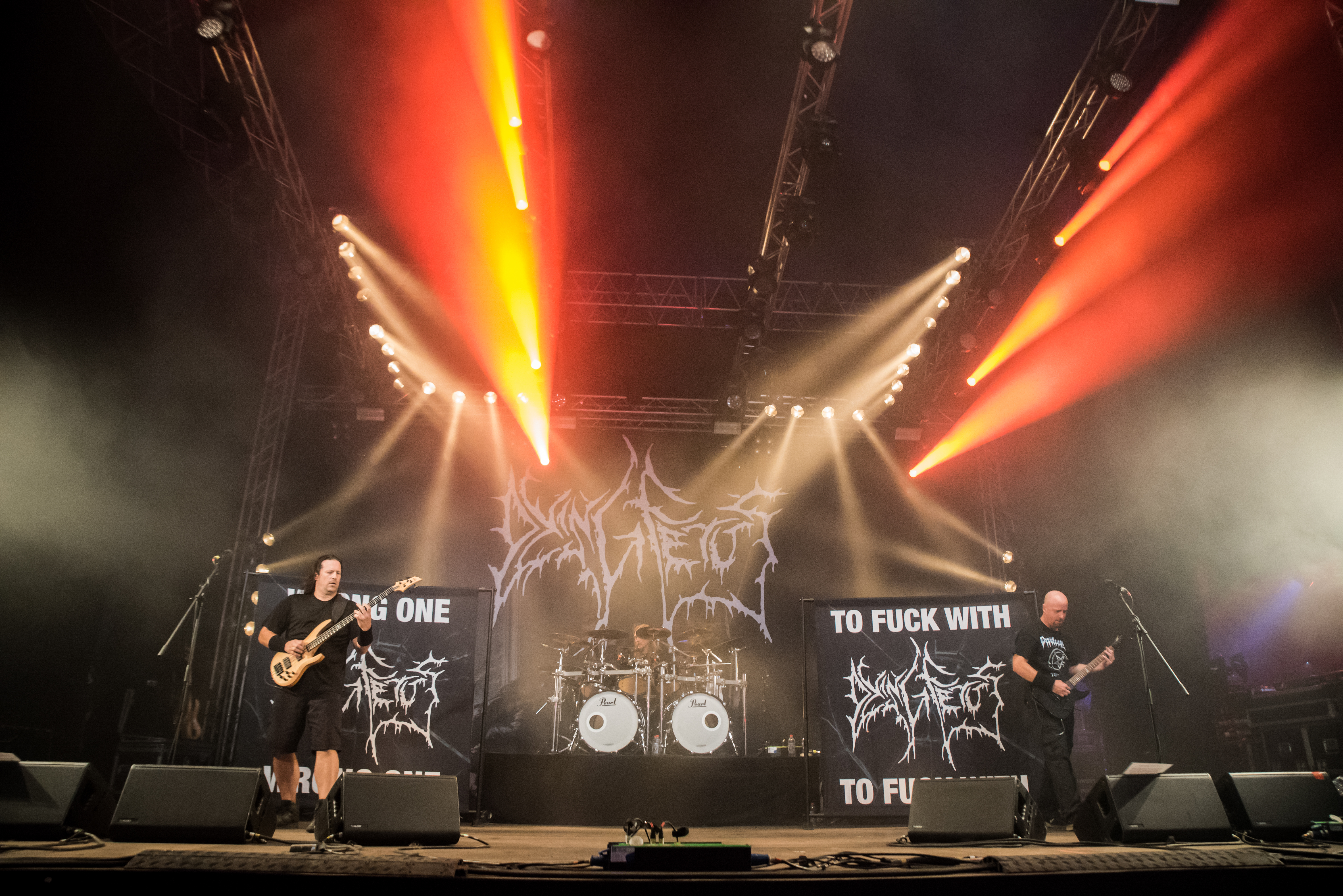 Dying Fetus - Wacken Open Air 2018